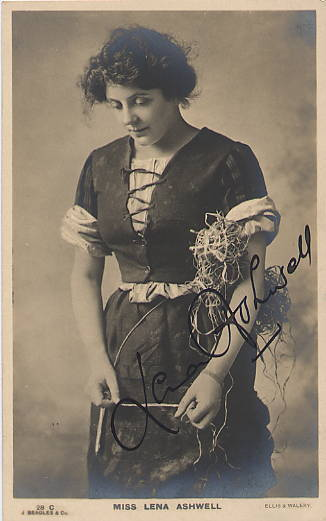 Lena Ashwell, British actress, manager